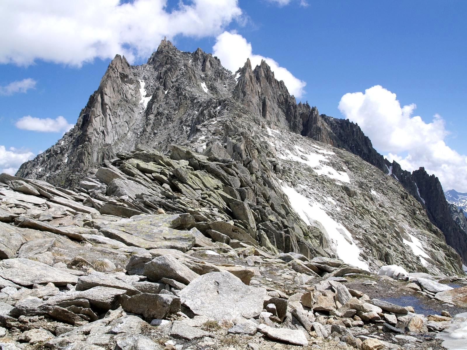 Lochberg, 3074 m